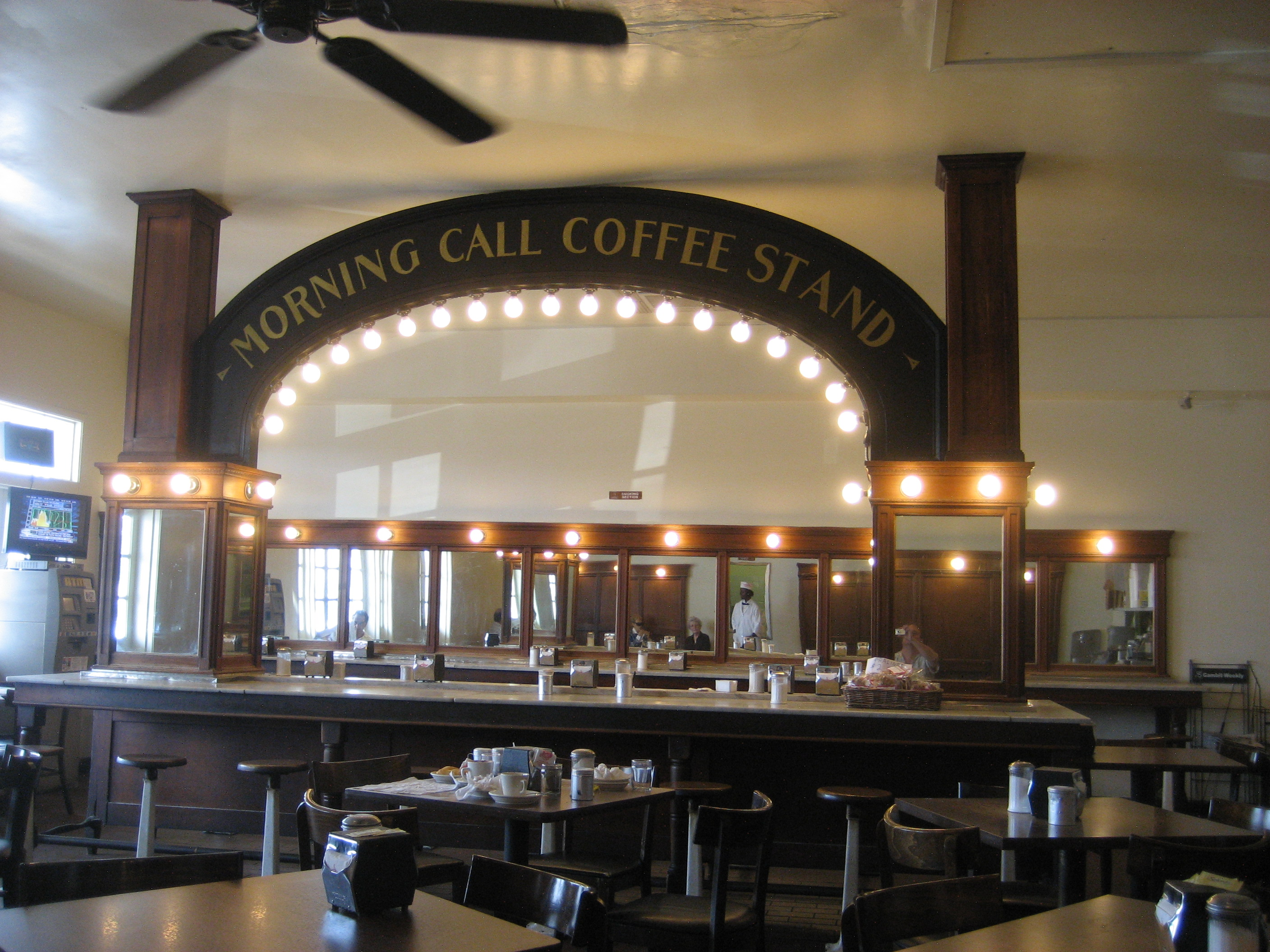 Interior of Morning Call cafe, Metairie, Louisiana. Counter and archway from the original 19th century location in the French Quarter moved here to Metairie in the 1970s.